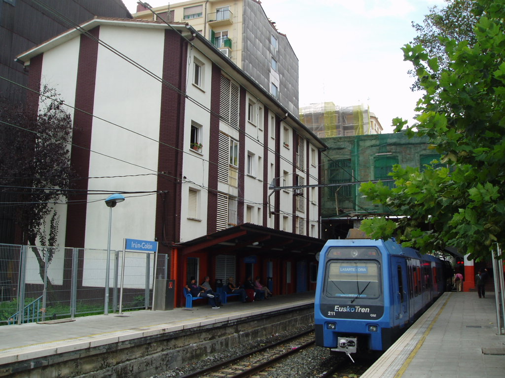 Railway station of Irun (Gipuzkoa). Operating company: Euskotren.